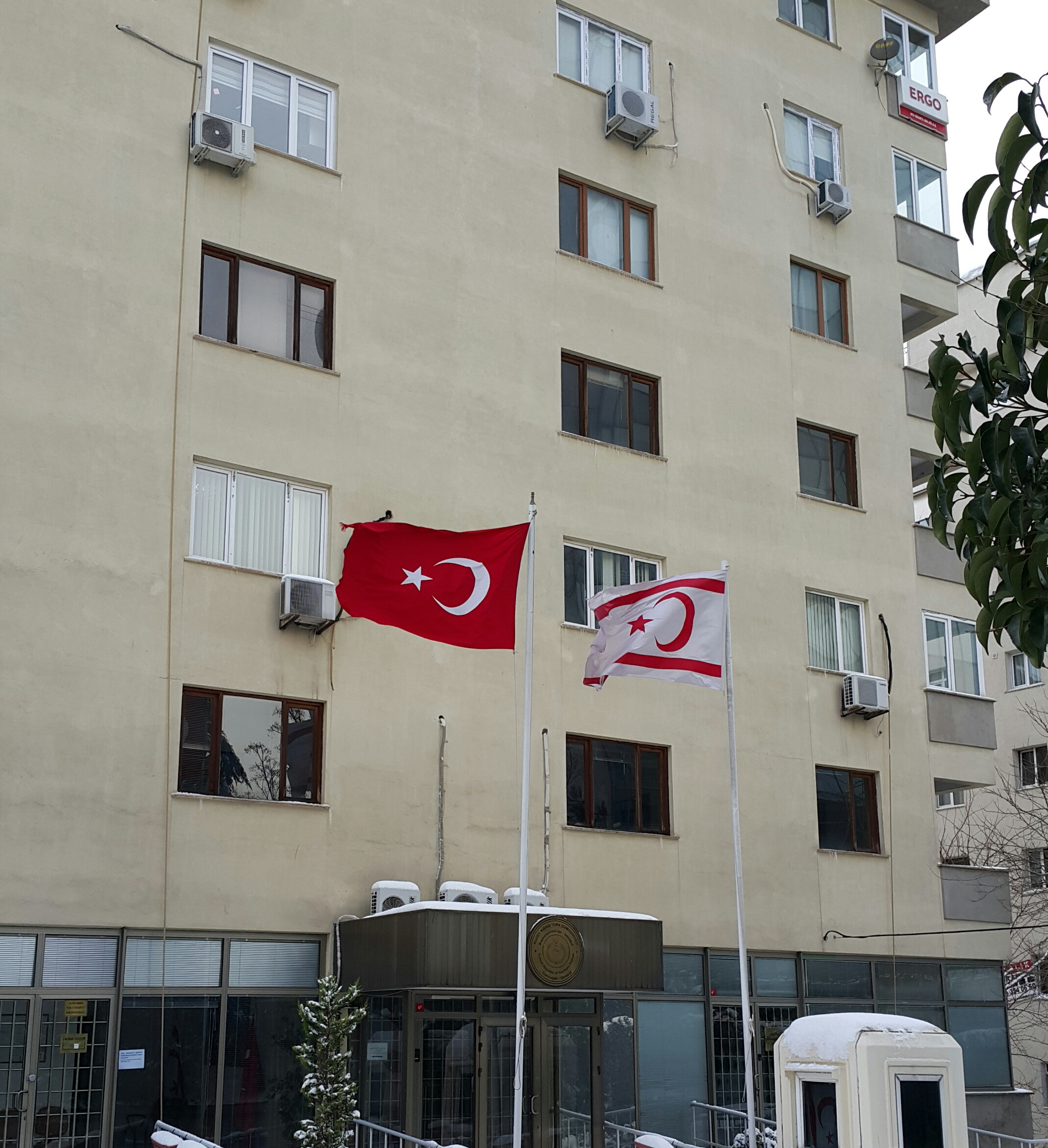 Consulate-General of Turkish Republic of Northern Cyprus in Istanbul, Turkey.